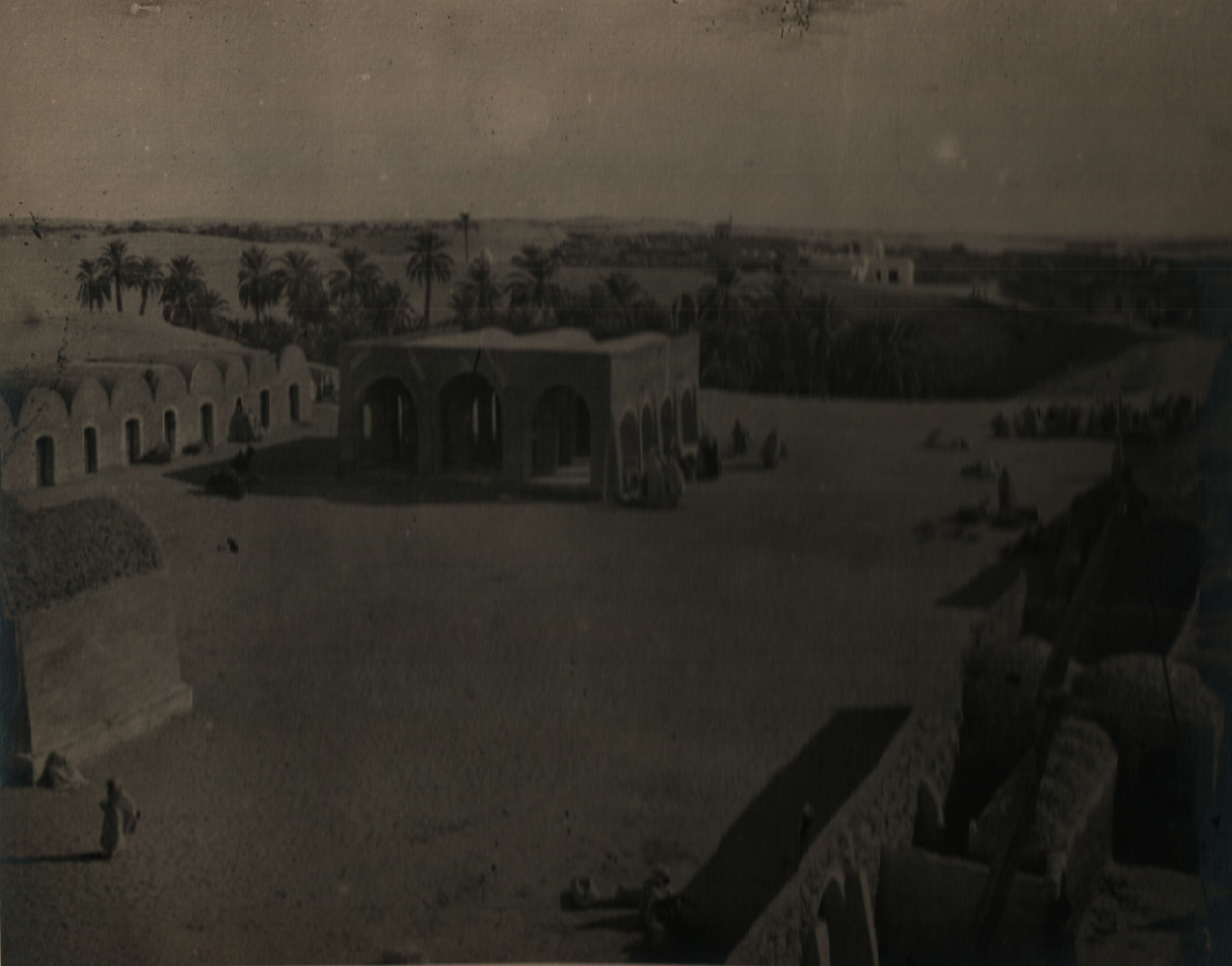 El Oued, Algeria. Views and photos of the Sahara desert and other regions in Africa.